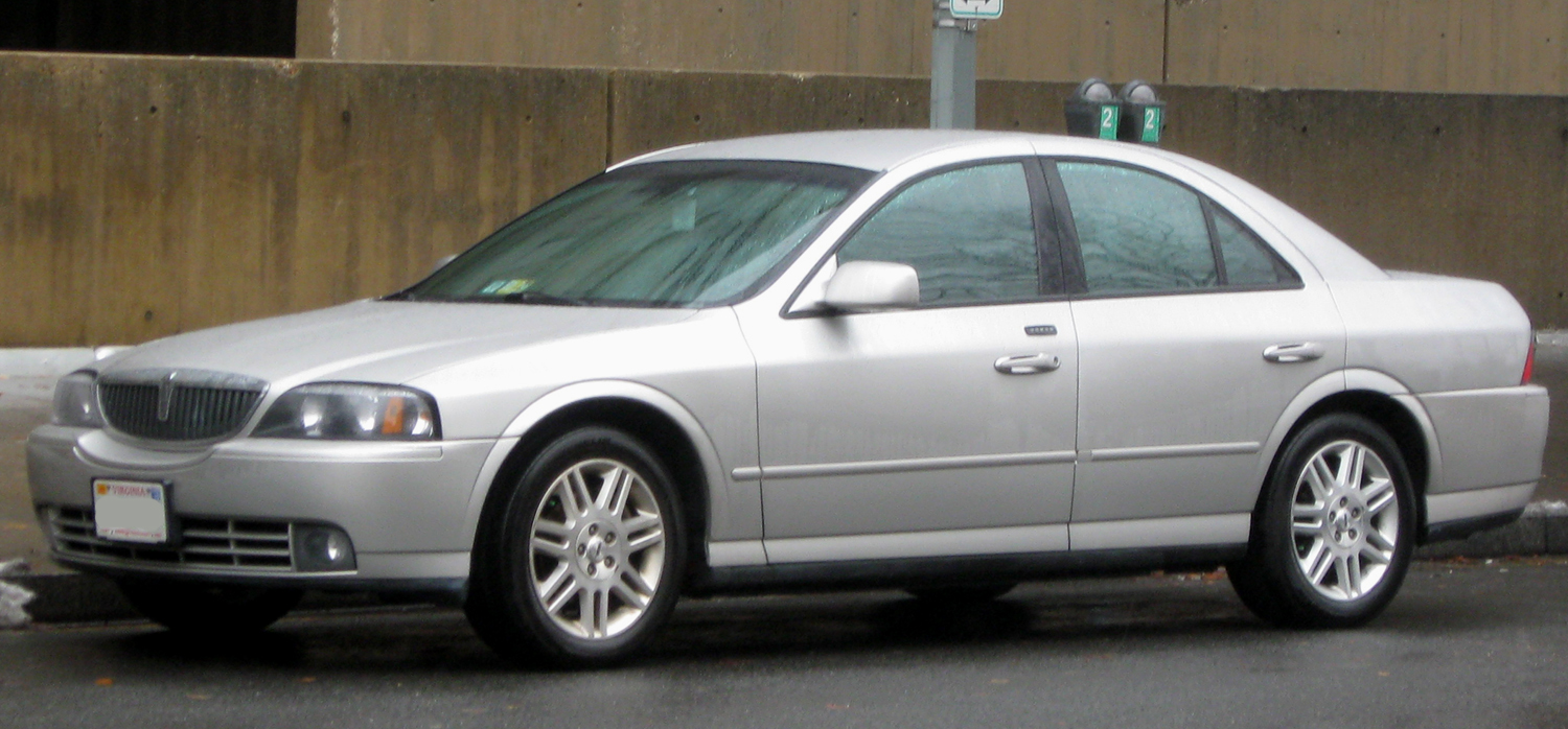 2003-2005 Lincoln LS photographed in Washington, D.C., USA.